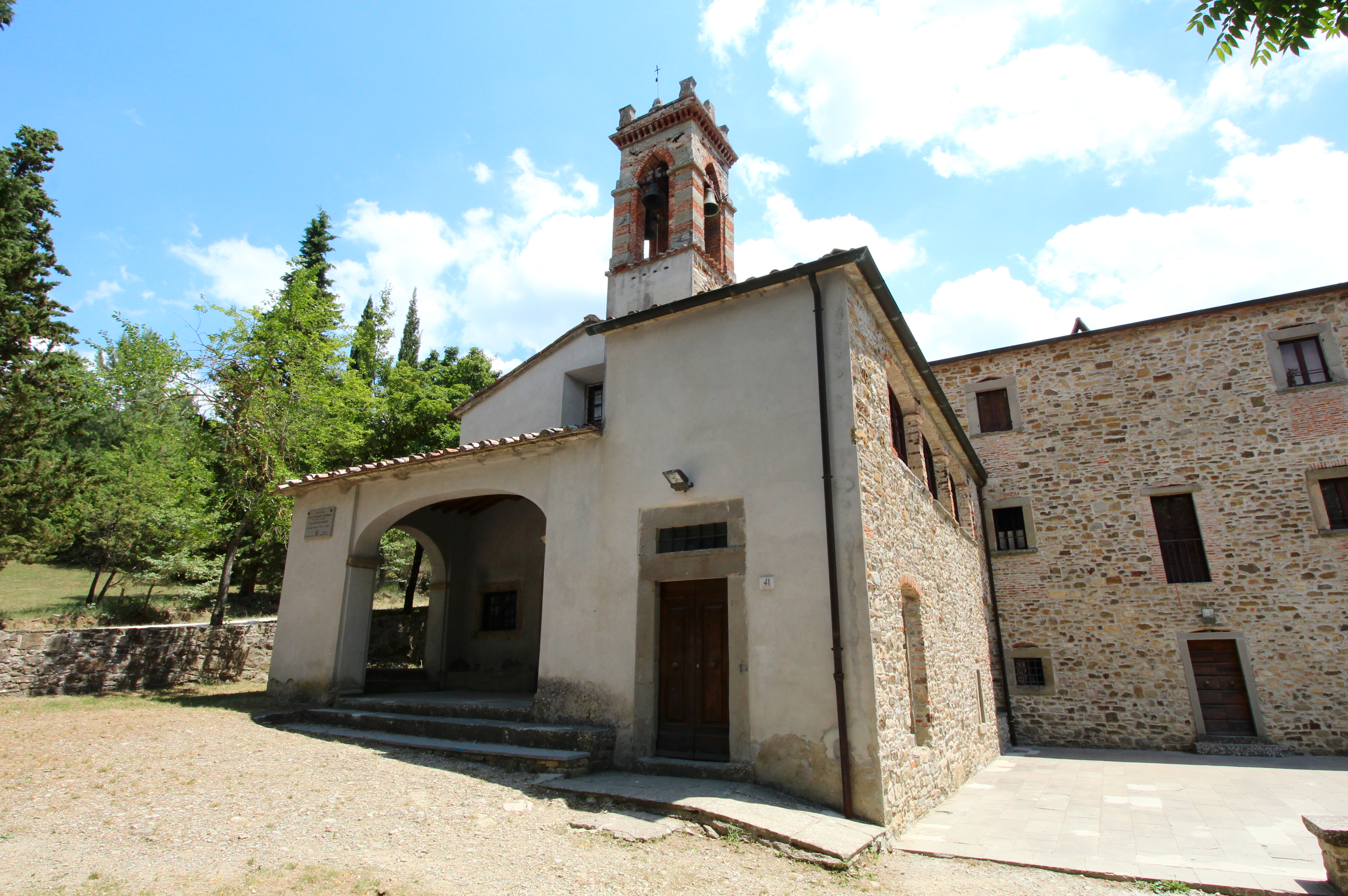 Church/Sanctuary Santuario di Santa Maria del Bagno (Madonna del Bagno), Salutio, hamlet of Castel Focognano, Province of Arezzo, Tuscany, Italy